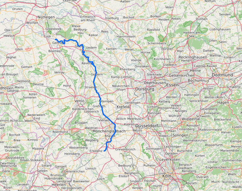 Overview map of Niers river, Germany